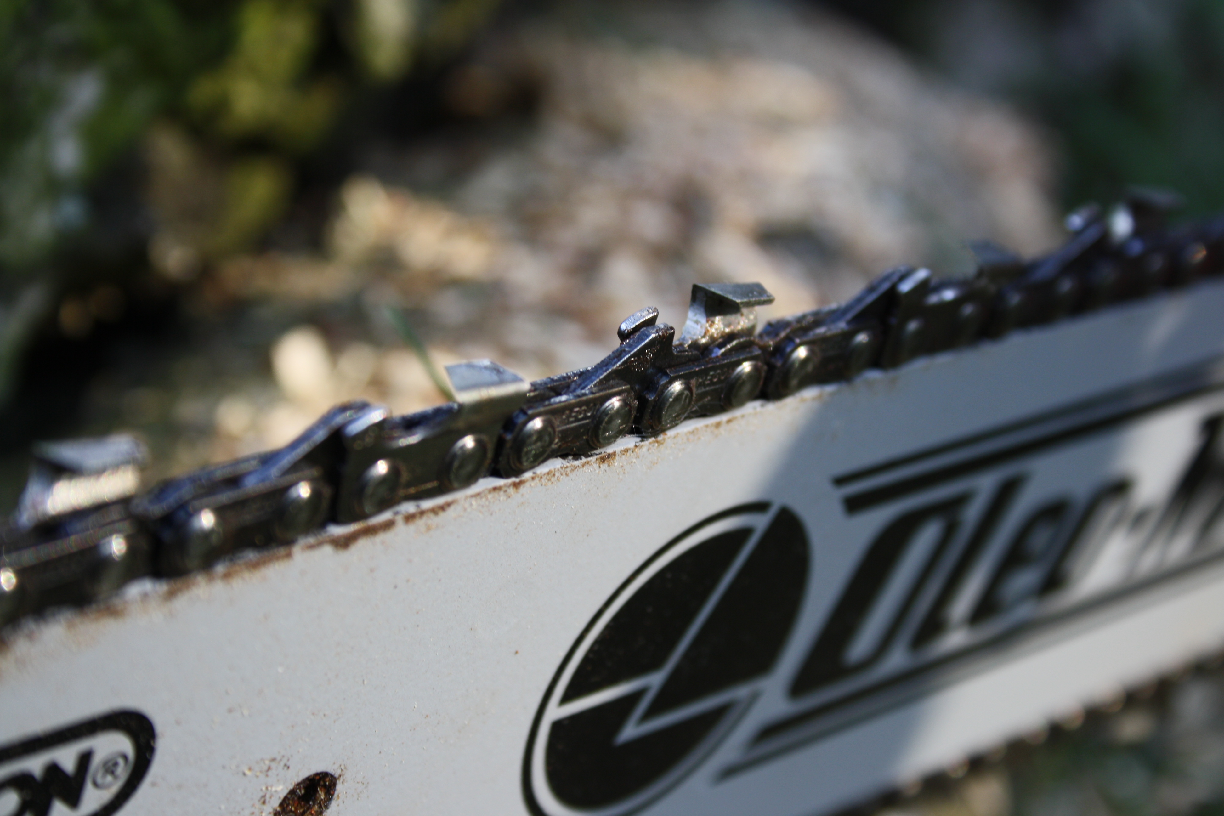 Chainsaw Chain at Oleo-Mac saw.